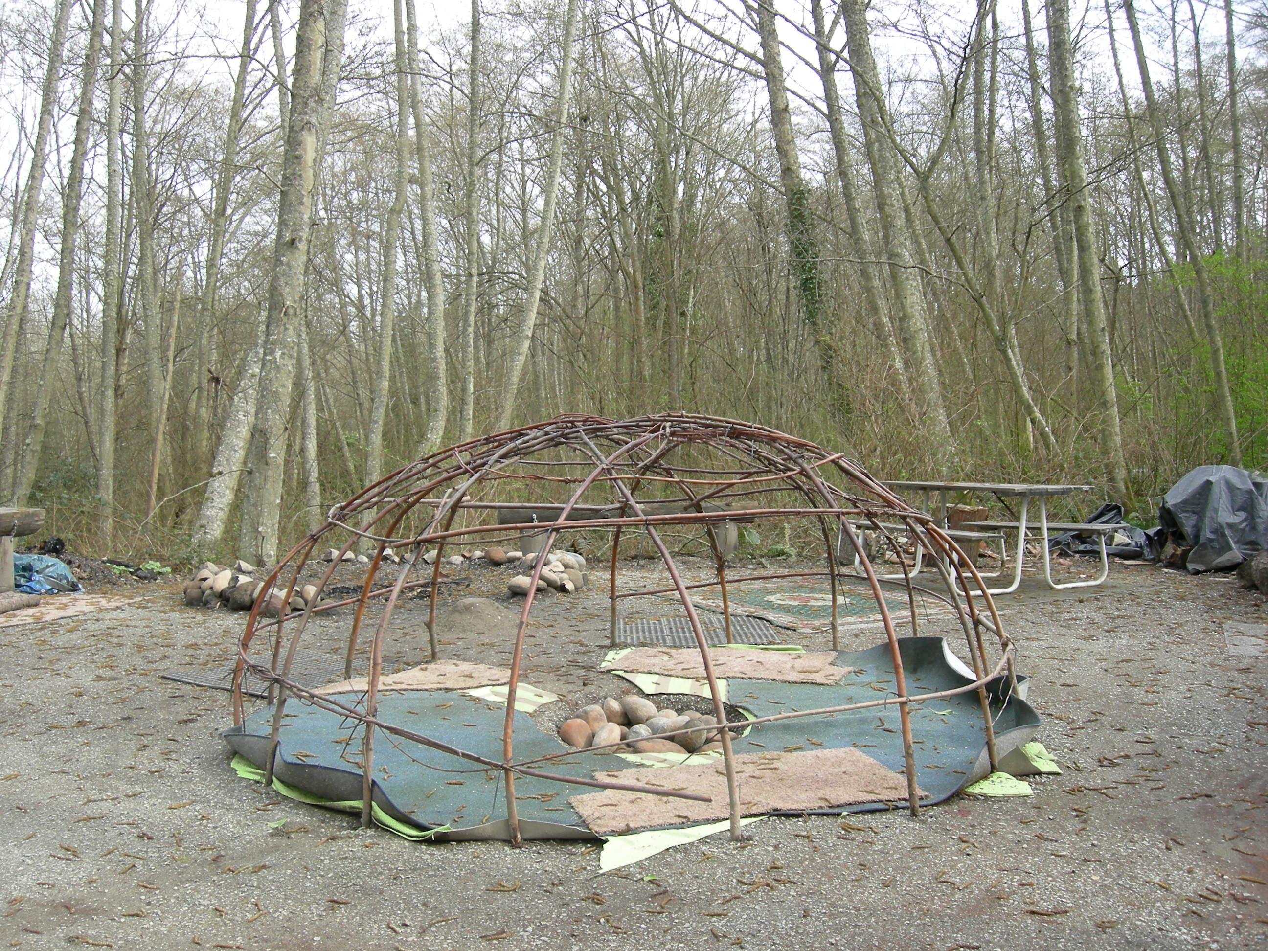 Framework of sweat lodge, Daybreak Star Cultural Center.